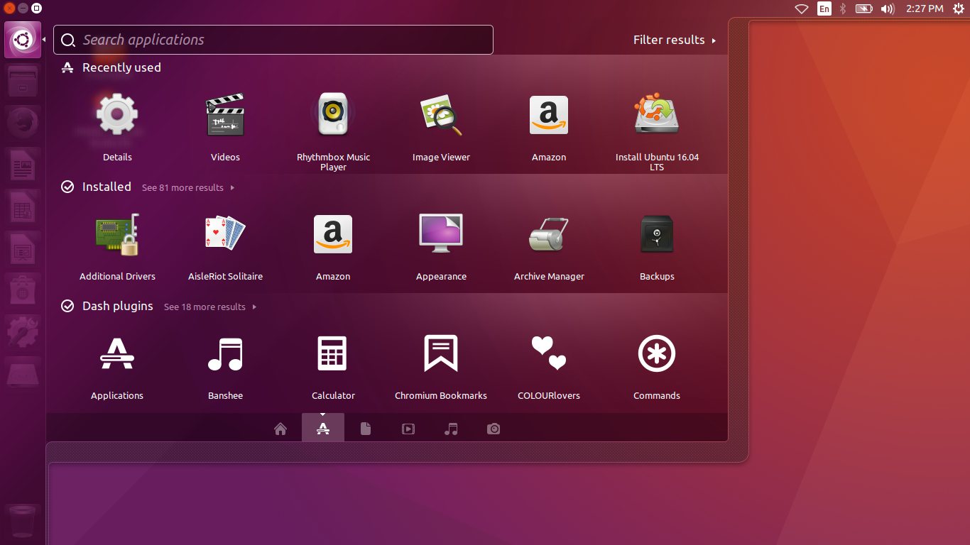 Screenshot showing Dash Application Lens on Ubuntu 16.04LTS' Unity 7.4